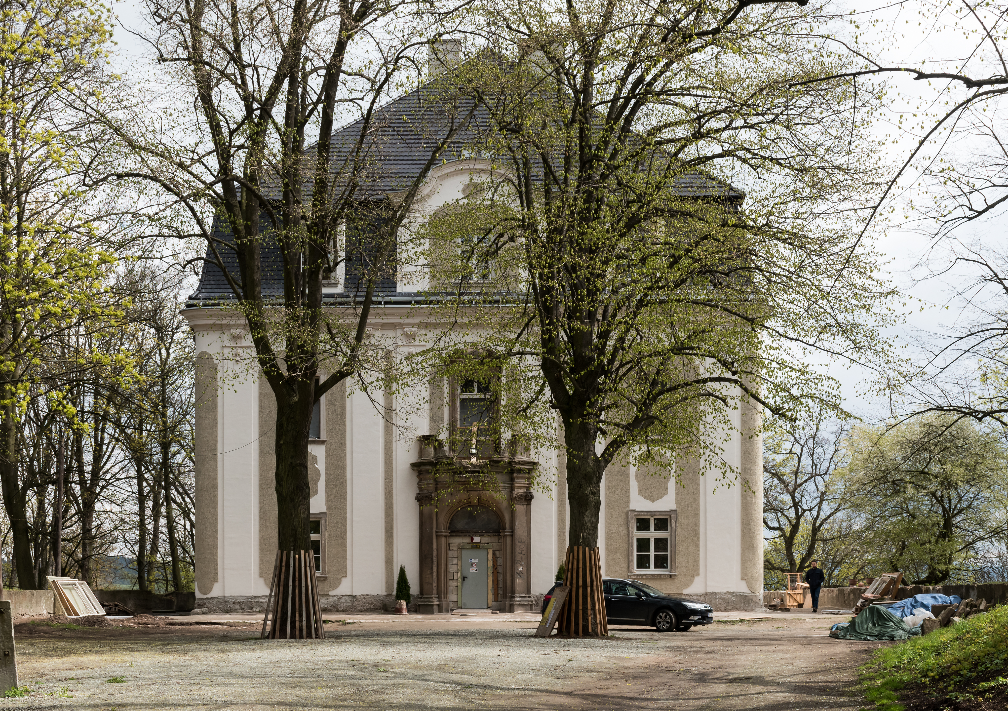 Palace in Piszkowice